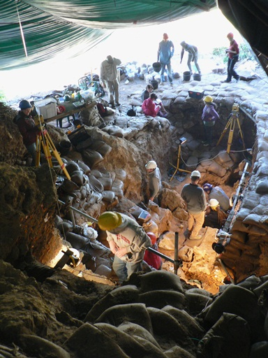 Excavations in progress in one of the Pinnacle Point Caves, 2011 This media shows a South African Protected Site with SAHRA file reference 0000000000.